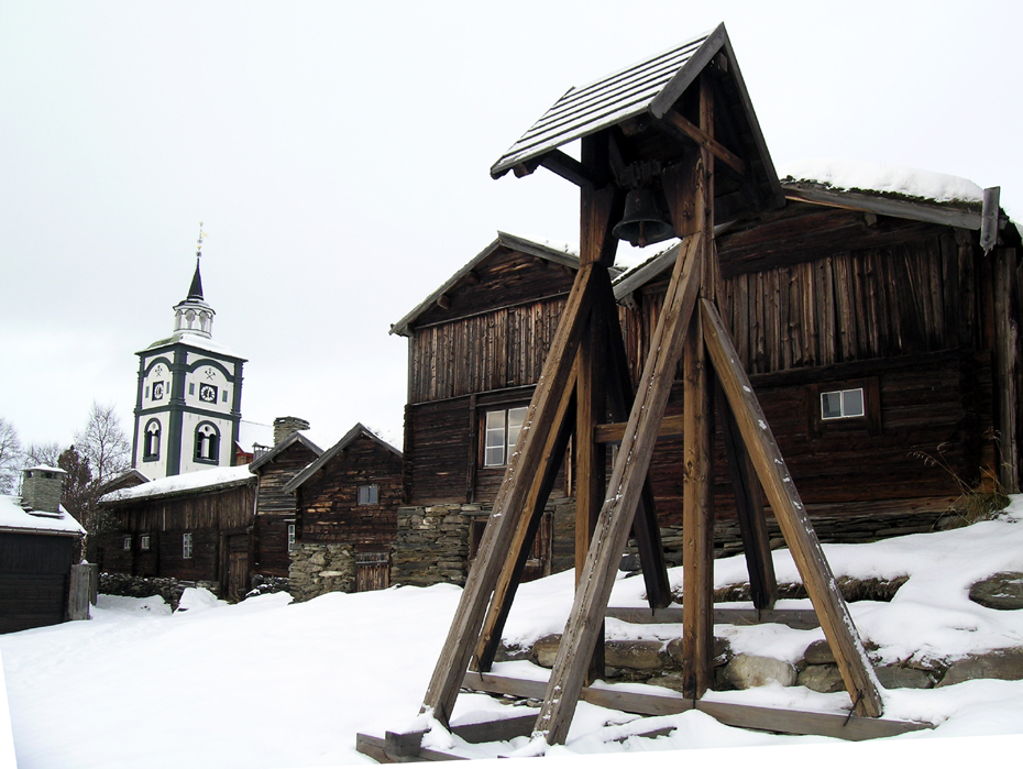 Hyttklokka, Røros. Erected in the 1890s. Outhouses in background protected by law.